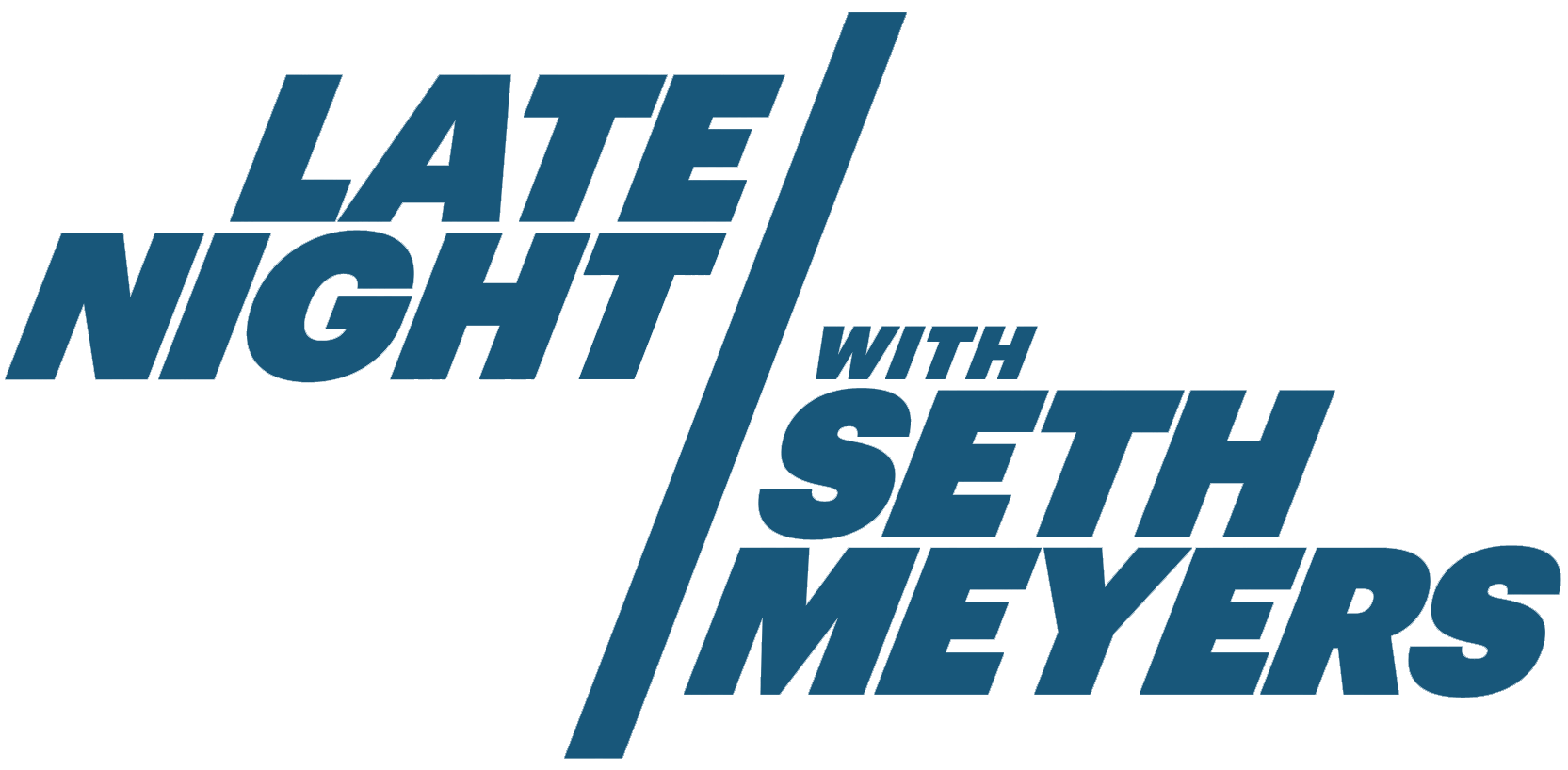 Logo of the talk show Late Night with Seth Meyers.